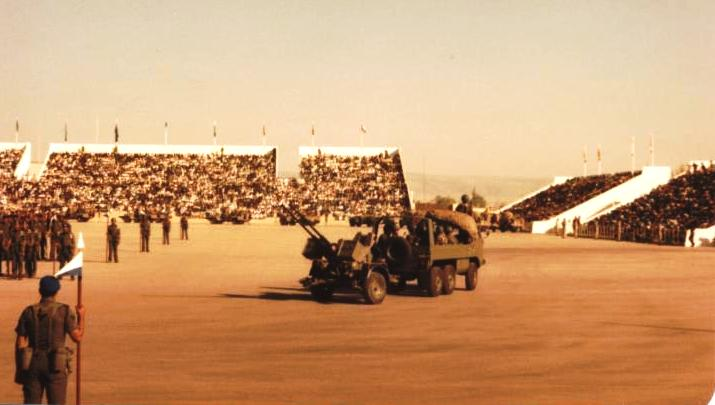 ZU-23-2 23mm Anti-aircraft Guns towed by its tractor, a Steyr-Puch Pinzgauer.